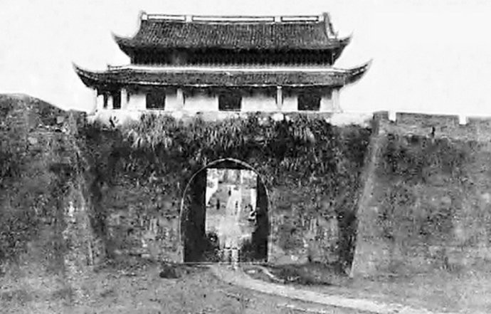 Qiantangmen, Hangzhou